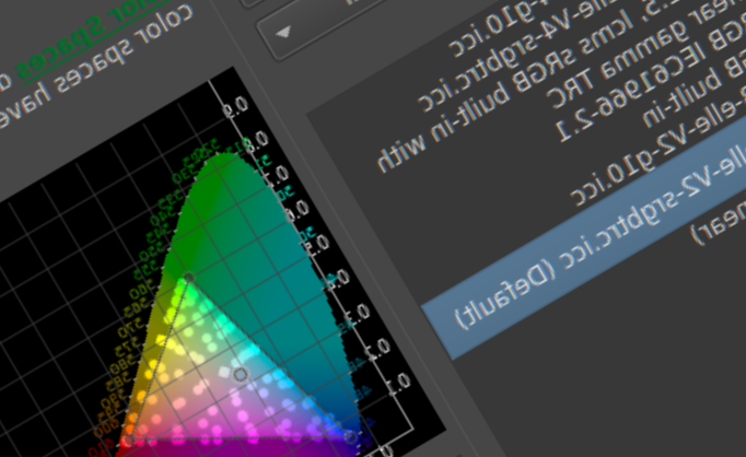 Krita's OpenGL canvas drawing quality of non-integral numbers of zooming, rotation and mirror mode.